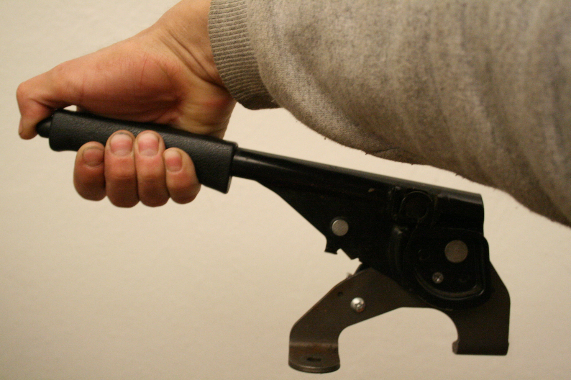 A hand brake lever from a 1990 Geo Storm GSi.